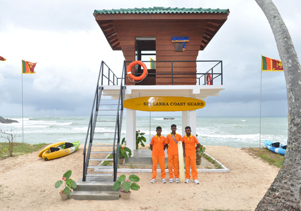 Sri Lanka Coast Guard